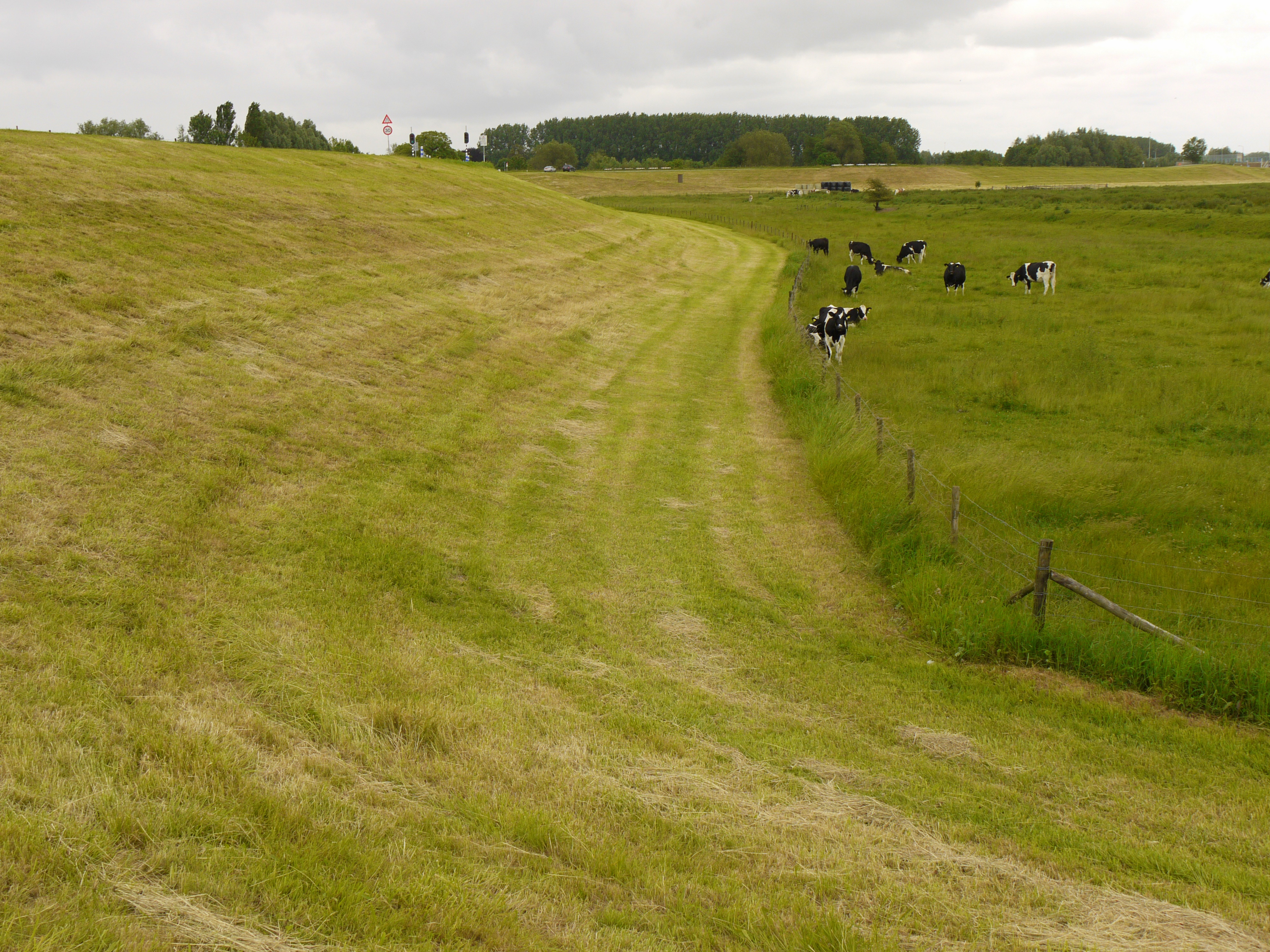 Southside of the IJsseldam, a dike (originally a dam) on the north bank of the river Lek, near IJsselstein.